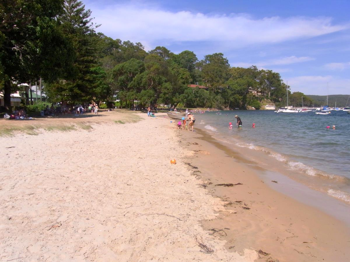 Clareville Beach, NSW, Australia